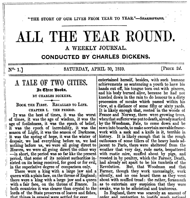 A Tale of Two Cities, Chapter 1, published in the periodical All The Year Round.